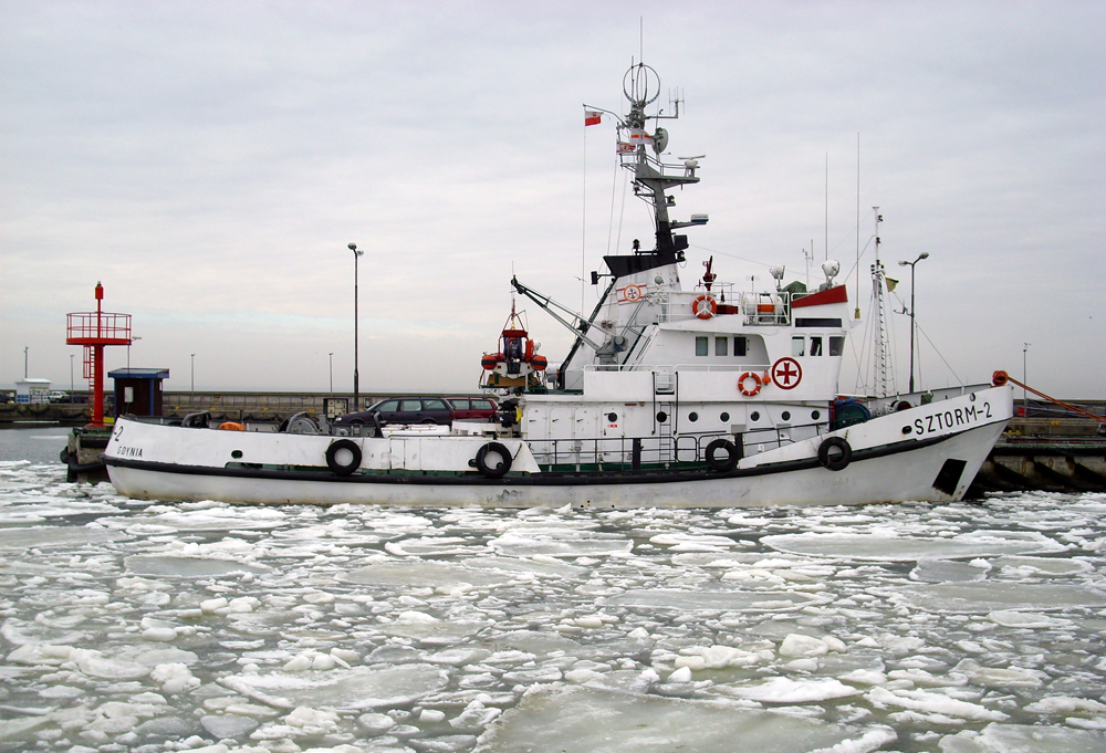 Sztorm-2, rescue ship of type R-27, port of Hel